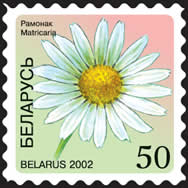 Stamp of Belarus